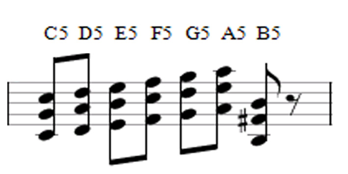 Power chords all fame